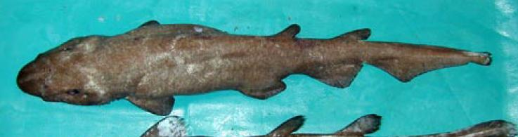 Deepwater catshark (Apristurus profundorum)